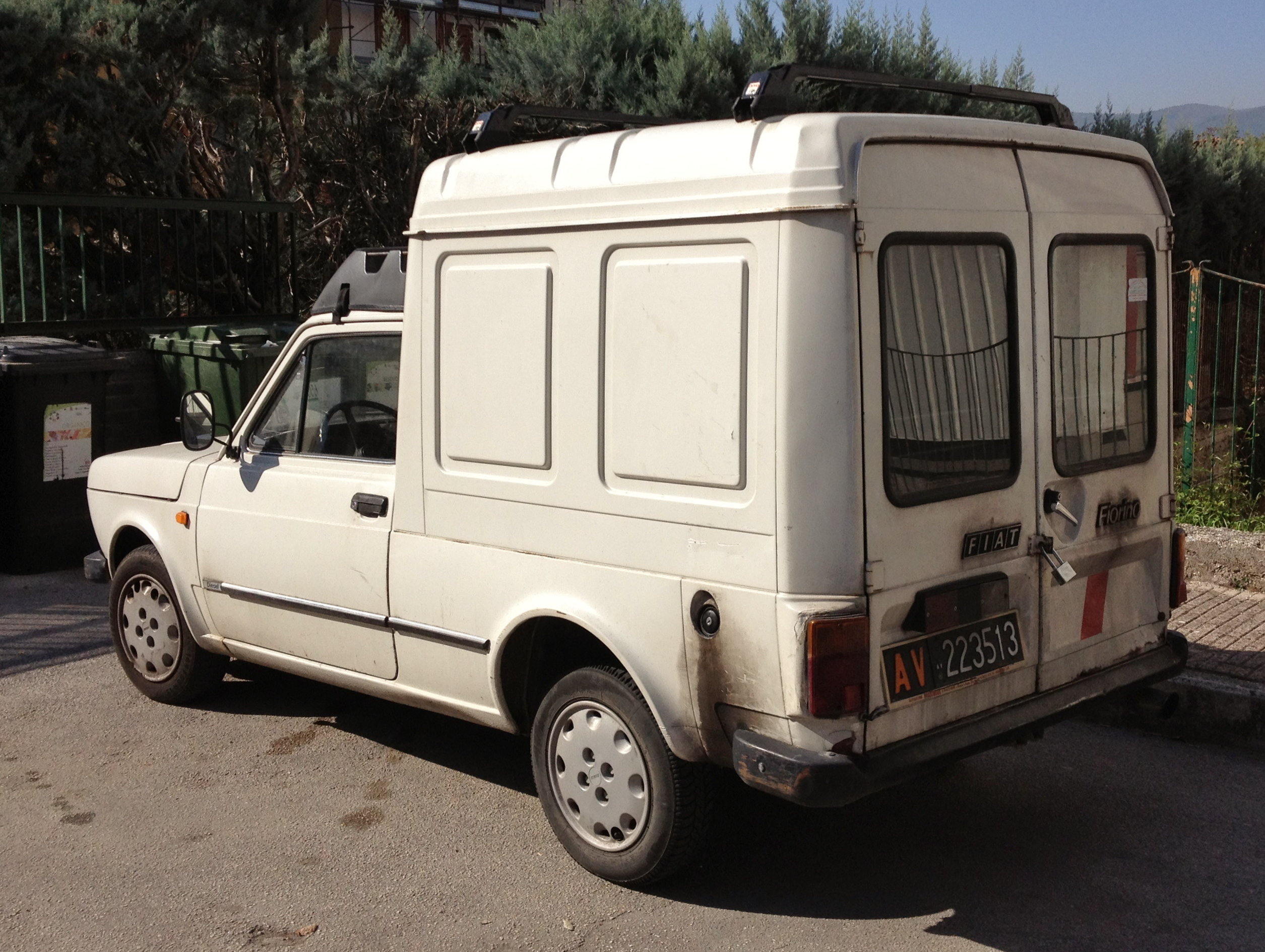 Fiat Fiorino 1st generation facelift in Avellino